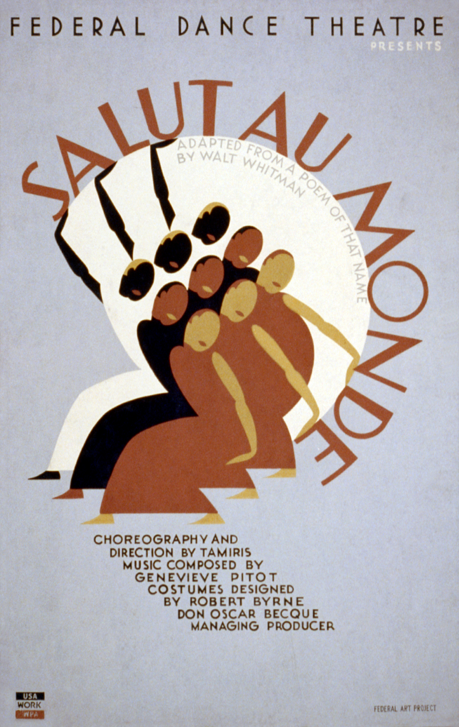 Poster for Salut au Monde, an original dance drama by Helen Tamiris presented in New York July 23–August 5, 1936, by the Federal Dance Theatre program of the Federal Theatre Project